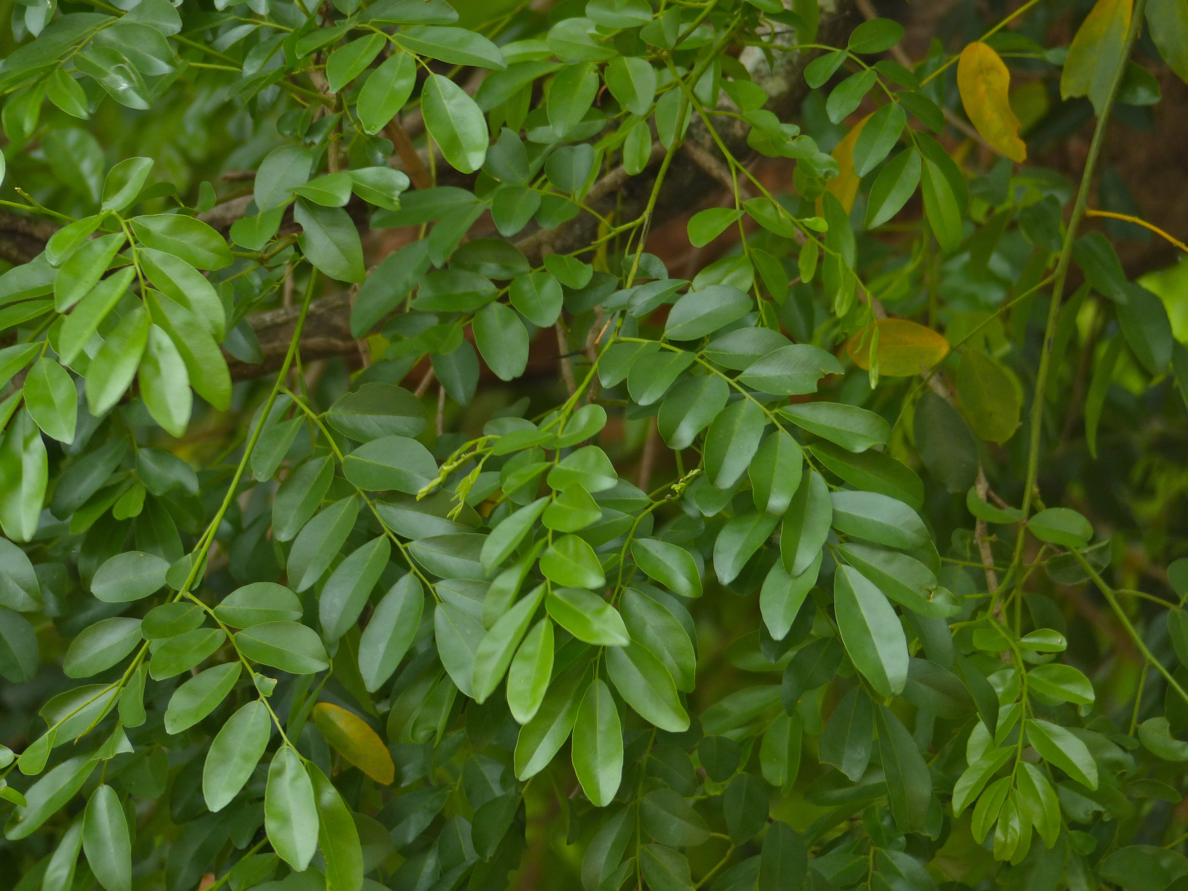 Foliage of a Nyala tree beside the H1-7 Road West of Shingwedzi, Kruger NP, SOUTH AFRICA